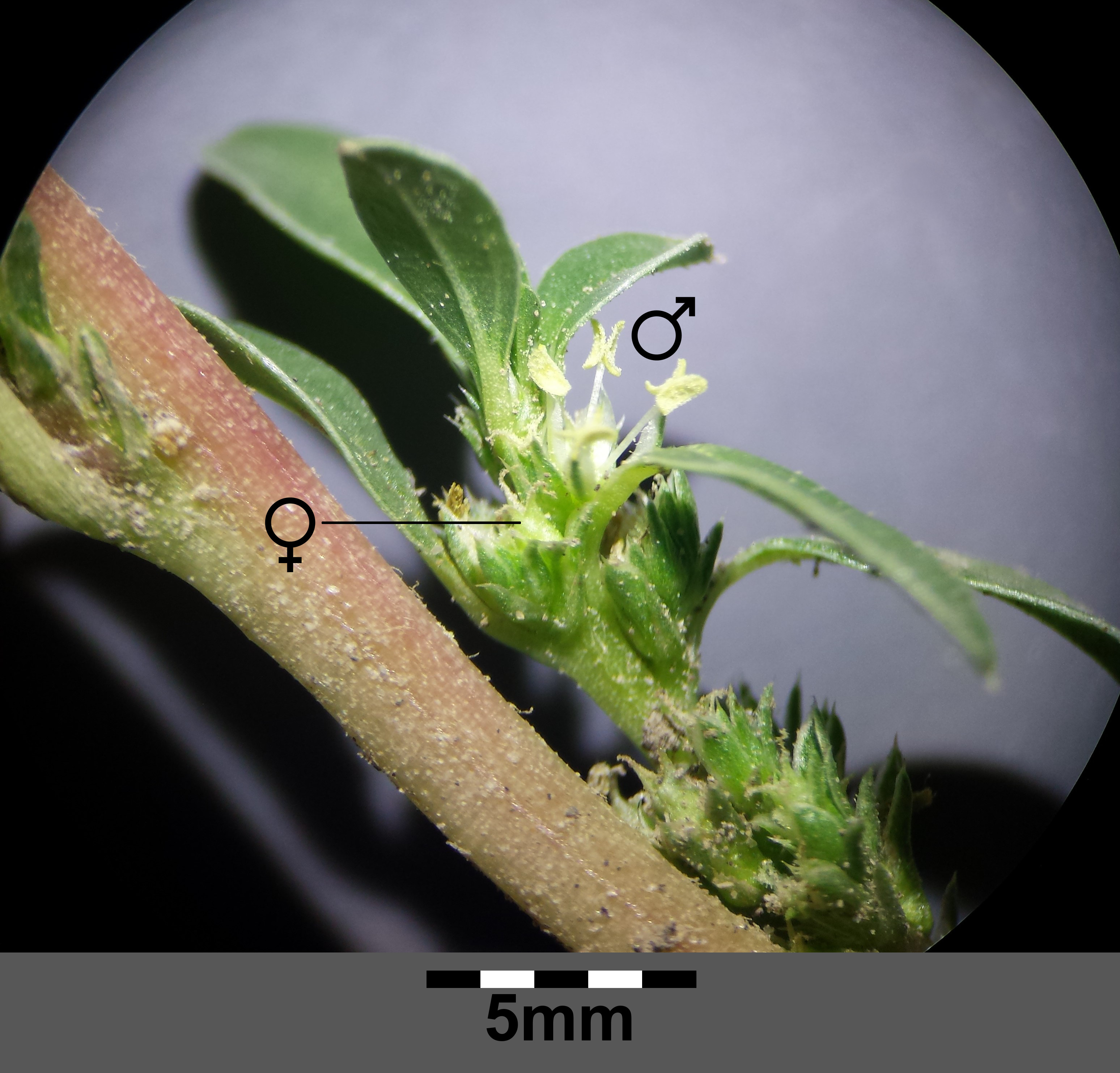 Inflorescence with male and female flower Taxonym: Amaranthus blitoides ss Fischer et al. EfÖLS 2008 ISBN 978-3-85474-187-9 Location: Hasswellgasse, Vienna-Floridsdorf - ca. 160 m a.s.l. Habitat: field